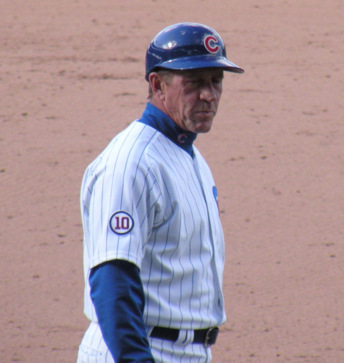 Cubs First-Base Coach Bob Dernier played six season with the Phillies and four with the Cubs. He nabbed 218 stolen bases in his career. Arizona Diamondbacks vs. Chicago Cubs April 5, 2011 Wrigley Field, Chicago, Illinois, USA.